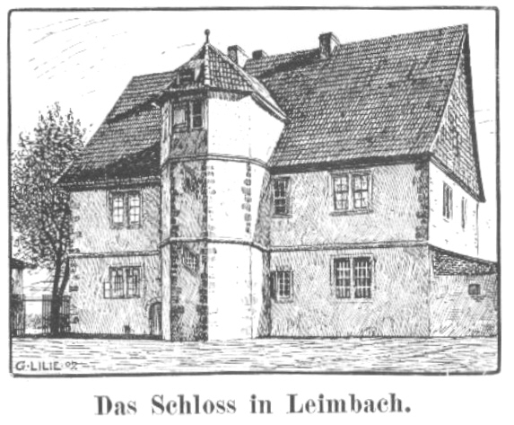 The castle in Leimbach near Bad Salzungen.